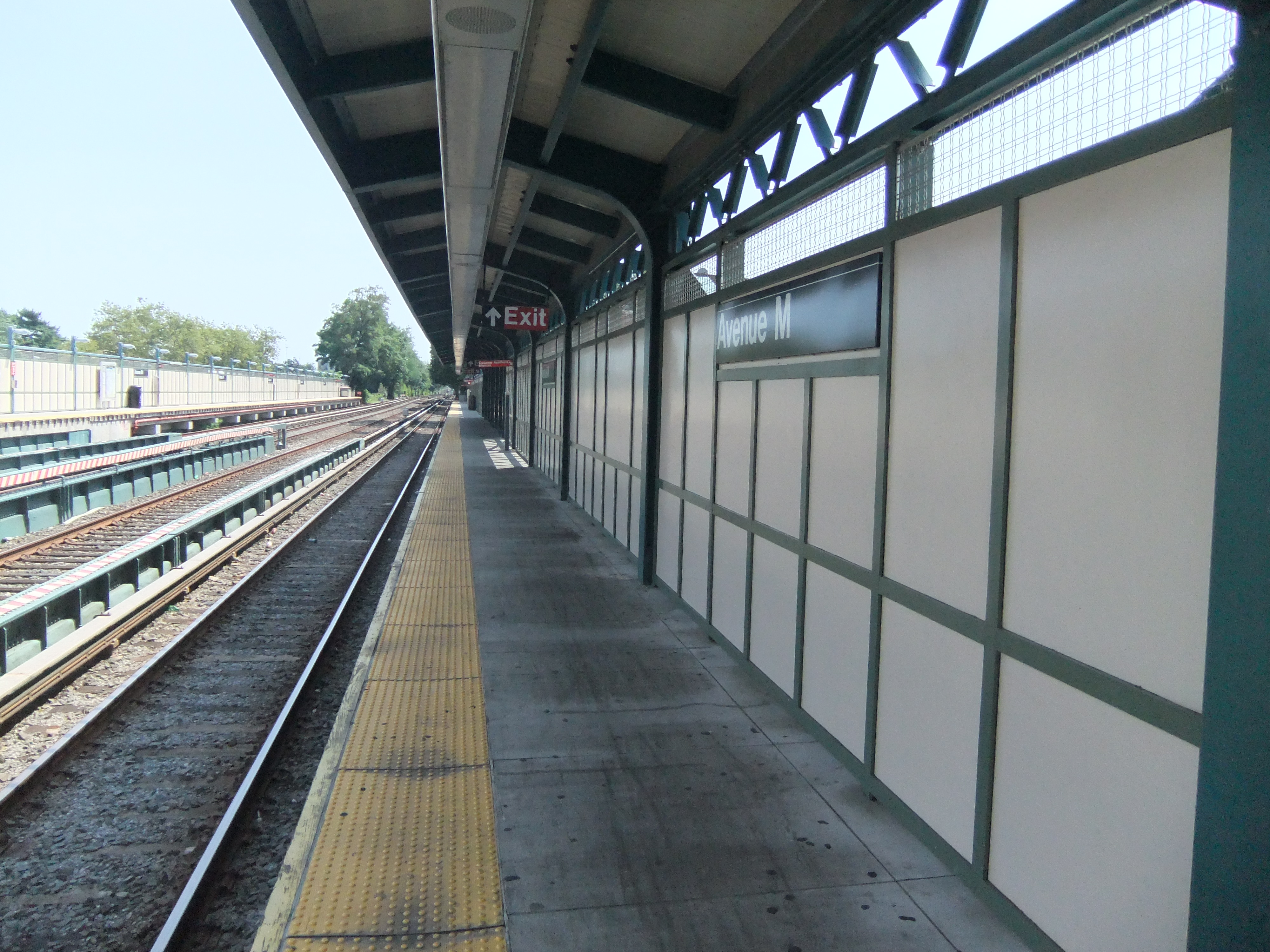 Coney island bound platform at Avenue M.